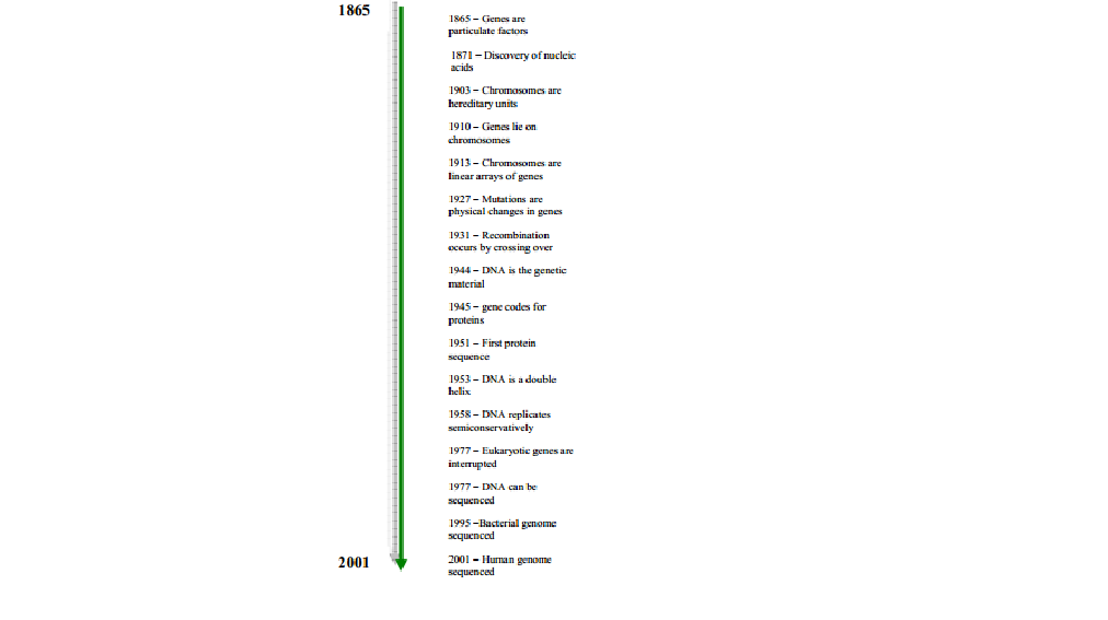 this is a rough line of time for gene